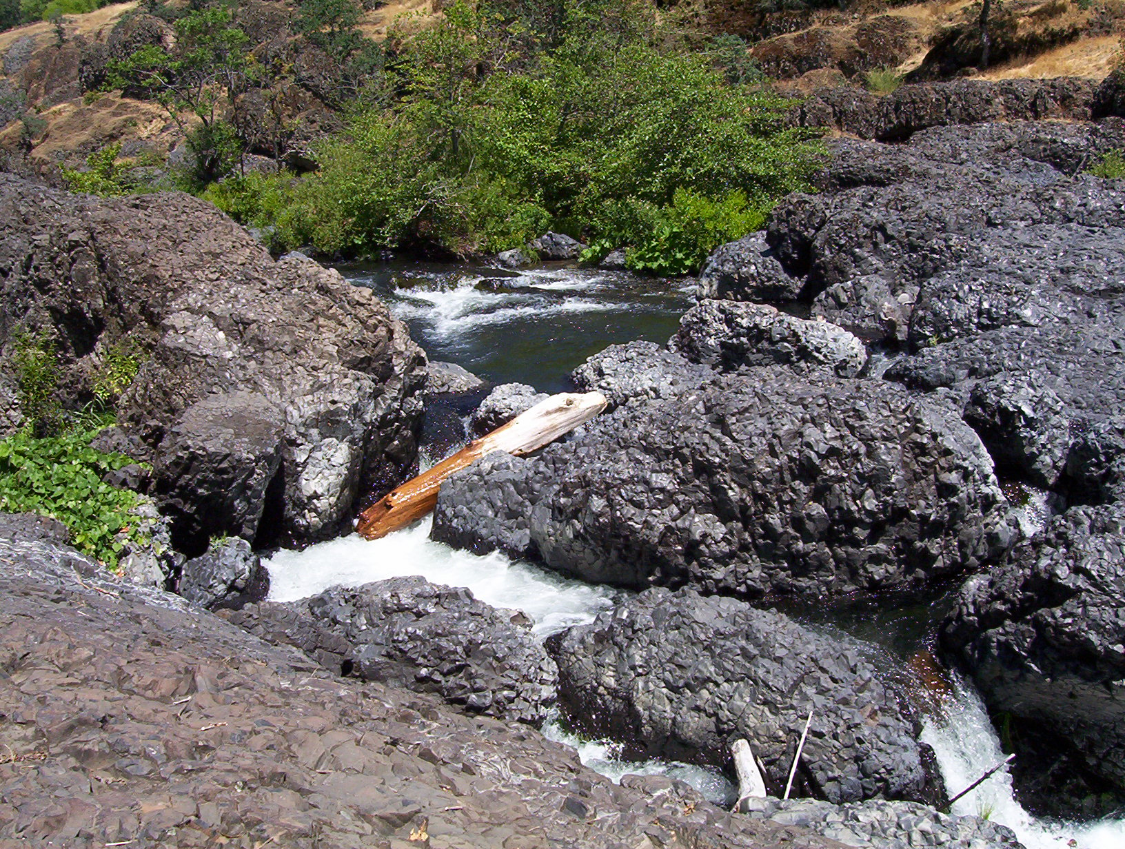 Bidwell Park.